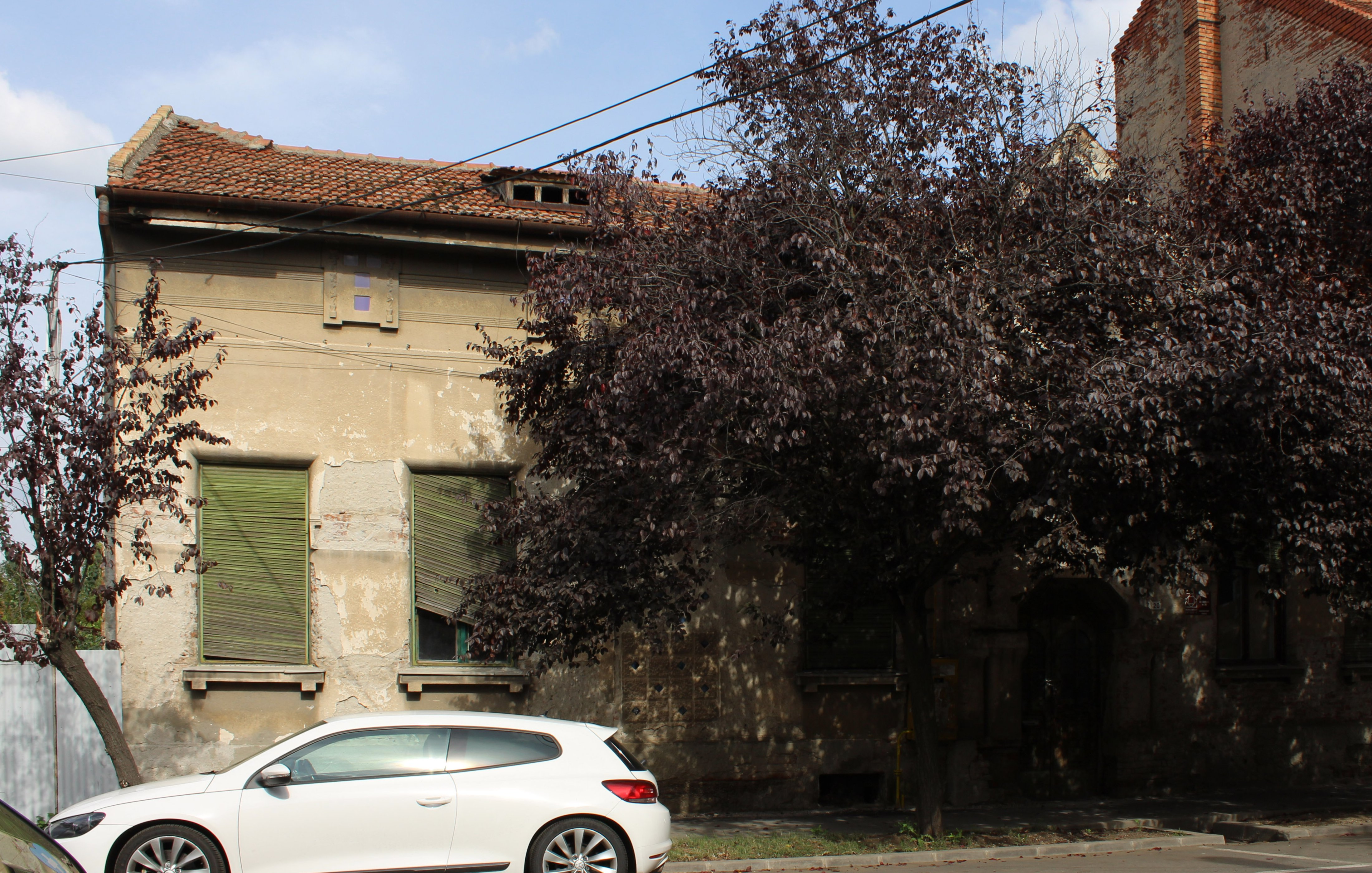 House Lipót Bruchner, Arad, Romania, built 1910.